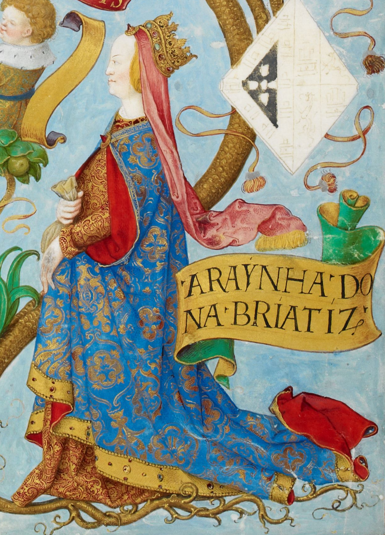 Beatrice of Castile (1242–1303), queen consort of Portugal by her marriage to Alfonso III.